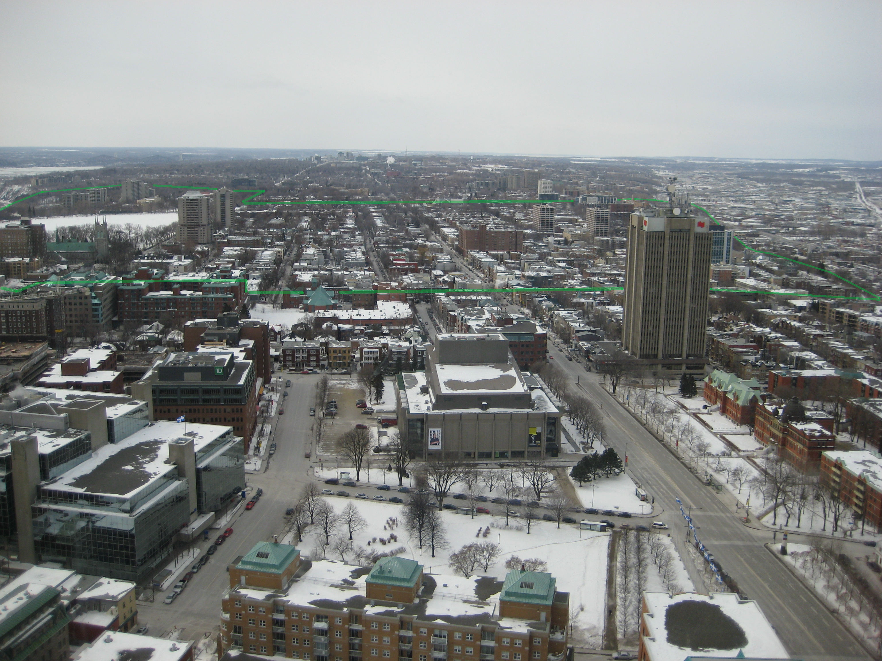 Approximative limits of the Montcalm district, Quebec City, based on an official City's map.